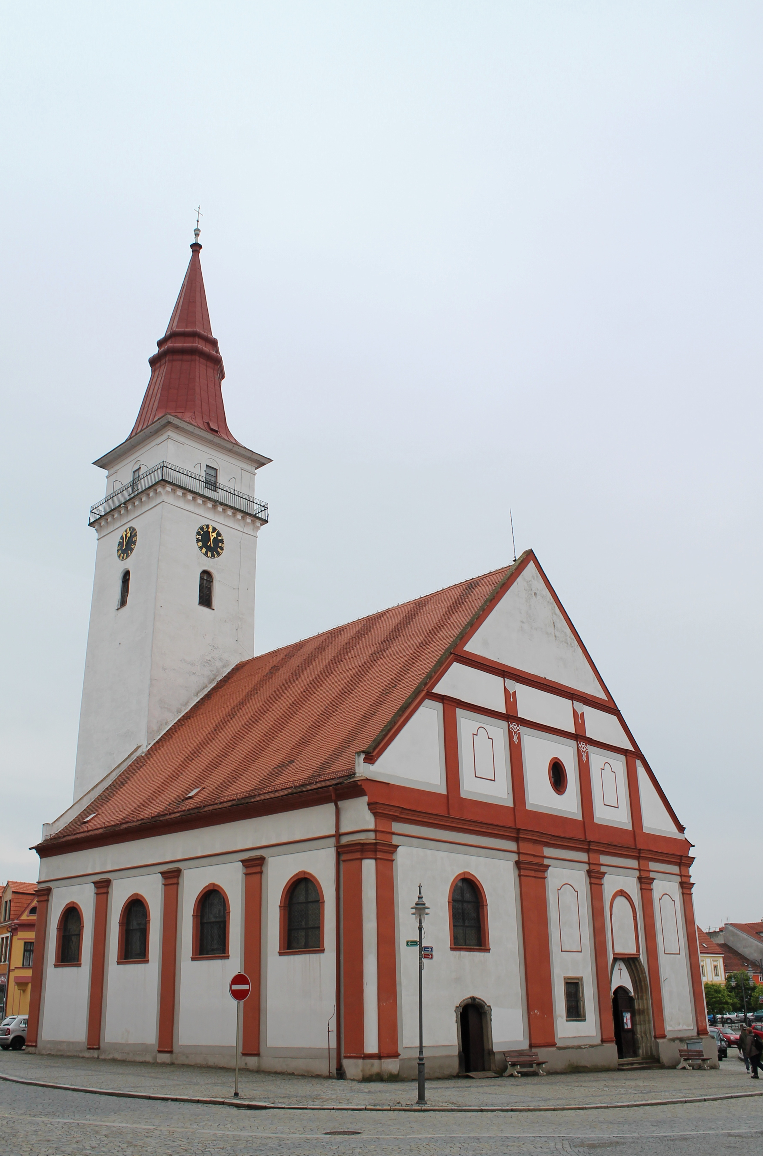 Church of Saint Stanislaus, Jemnice, Třebíč District, Czech Republic